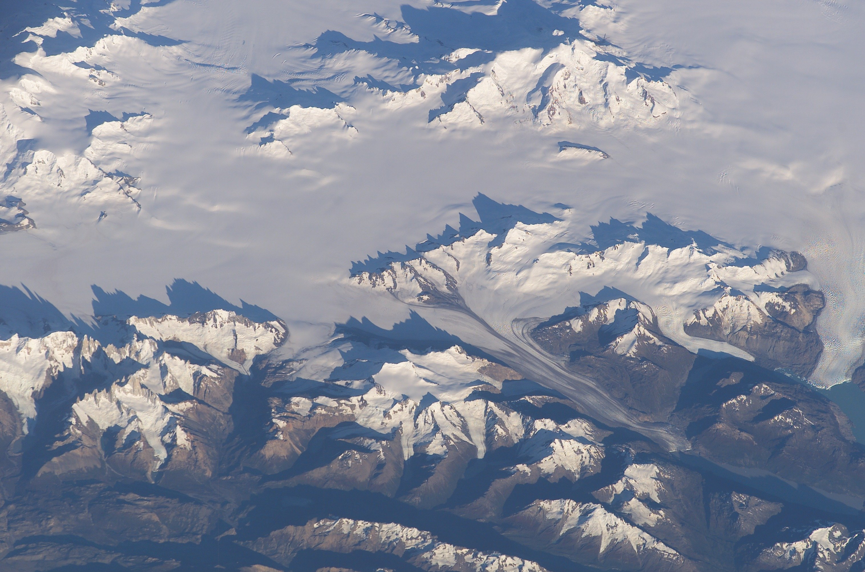 Southern Patagonian Ice Field, Argentina-Chile. The volcano Lautaro is visible in the upper portion of this image, whereas Mount Fitz Roy is in the lower left corner.